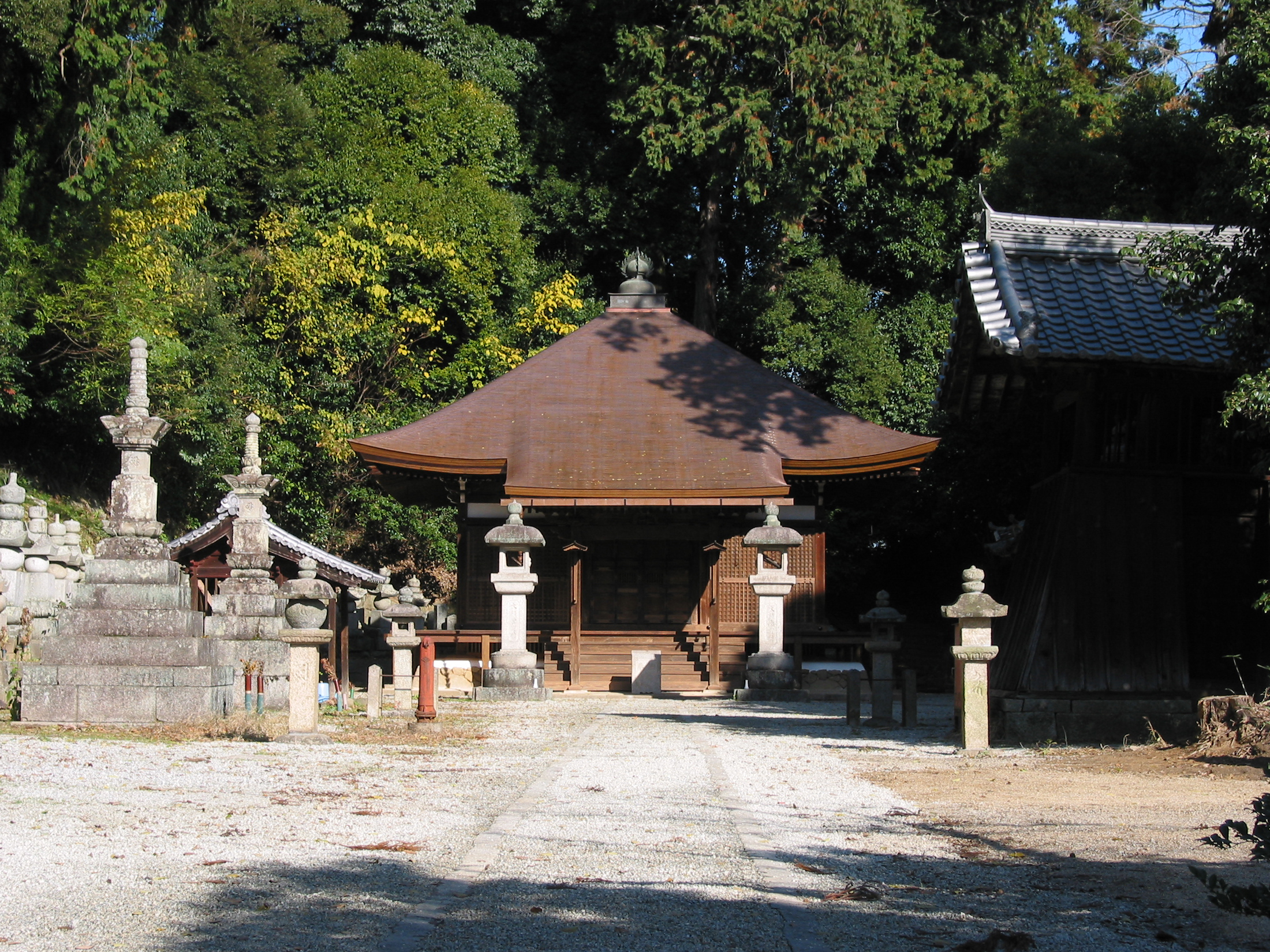 Kōbō-Daishi-dō (the mausoleum of Kūkai) Taima-dera Taima Katsuragi-City Nara Pref., Japan.